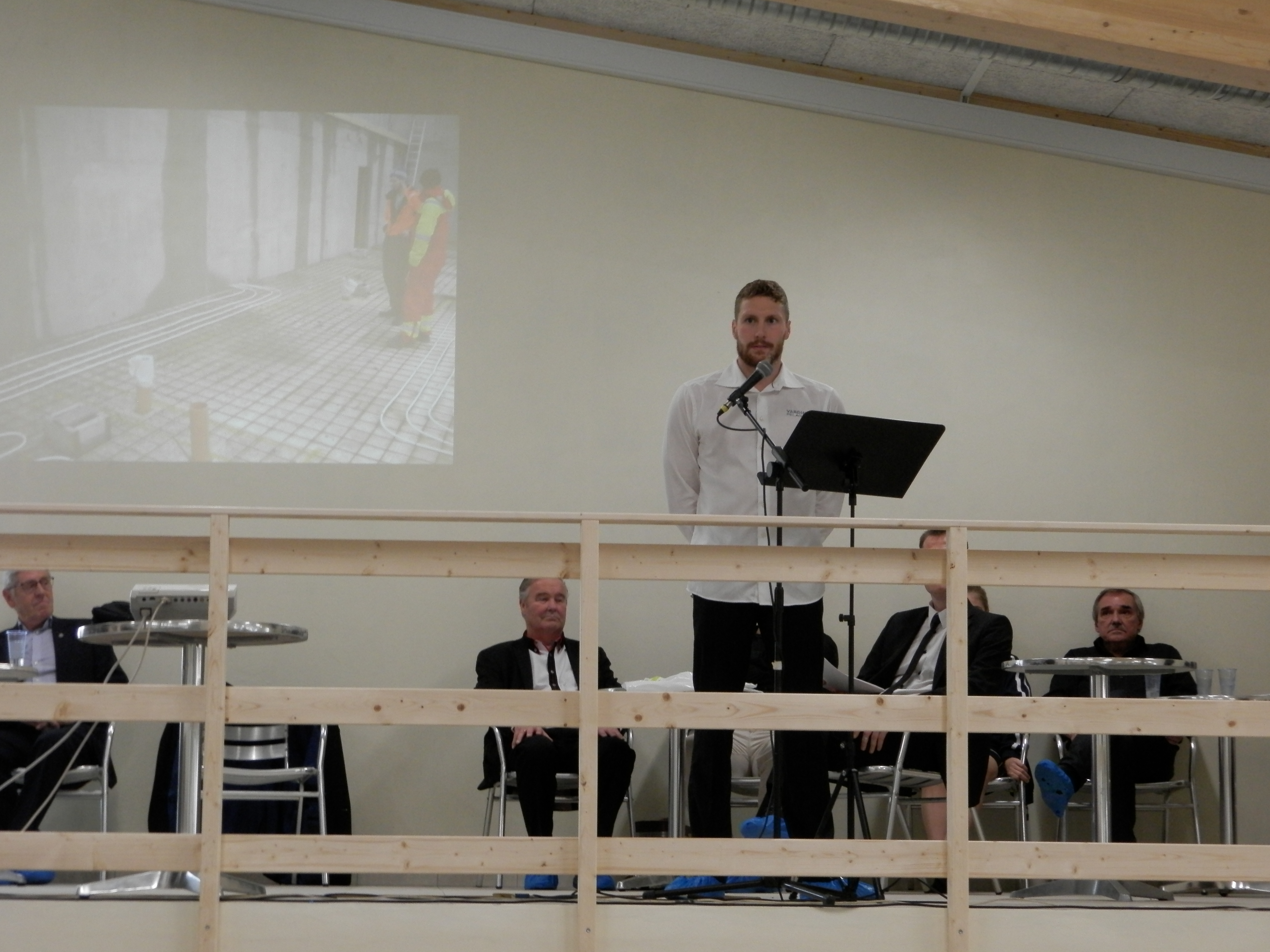 Páls Høll is the first 50-meter swimming pool in the Faroe Islands. It was built in Vágur from 2012 until 2015 and opened officially on 17 October 2015. It is named after Pál Vitalis Joensen, who is the best Faroese swimmer ever and the only Faroese swimmer who has competed at the Olympics.